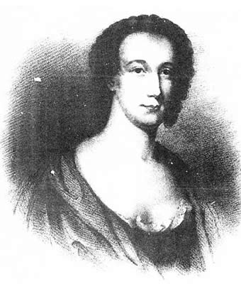 Frances Sheridan, from The History of Nourjahad, mother of Richard Brinsley Sheridan